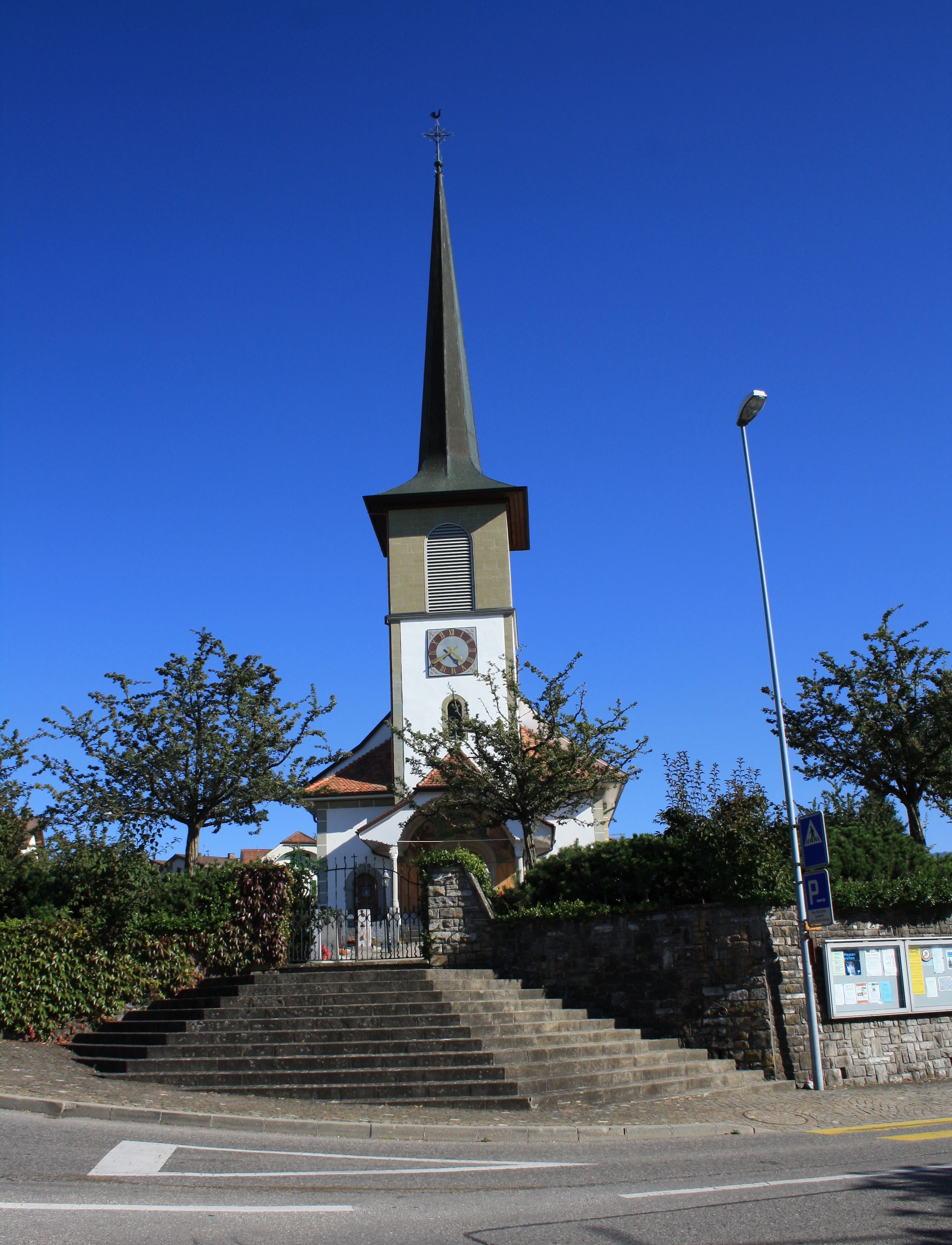 The roman-catholic church of Giffers, Canton of Fribourg, Switzerland